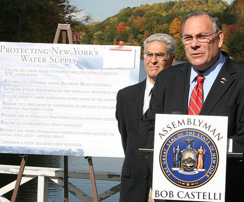 New York State Assemblymembers Robert Castelli and Steve Katz call for a moratorium on on hydraulic fracturing in the Croton Watershed in October 2010.